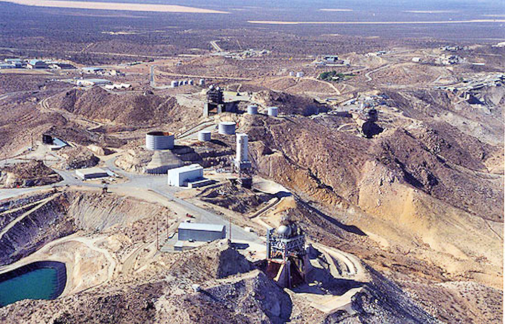 Air Force Rocket Research Laboratory — rocket engine testing facility at Edwards Air Force Base, in the Mojave Desert, southern California.